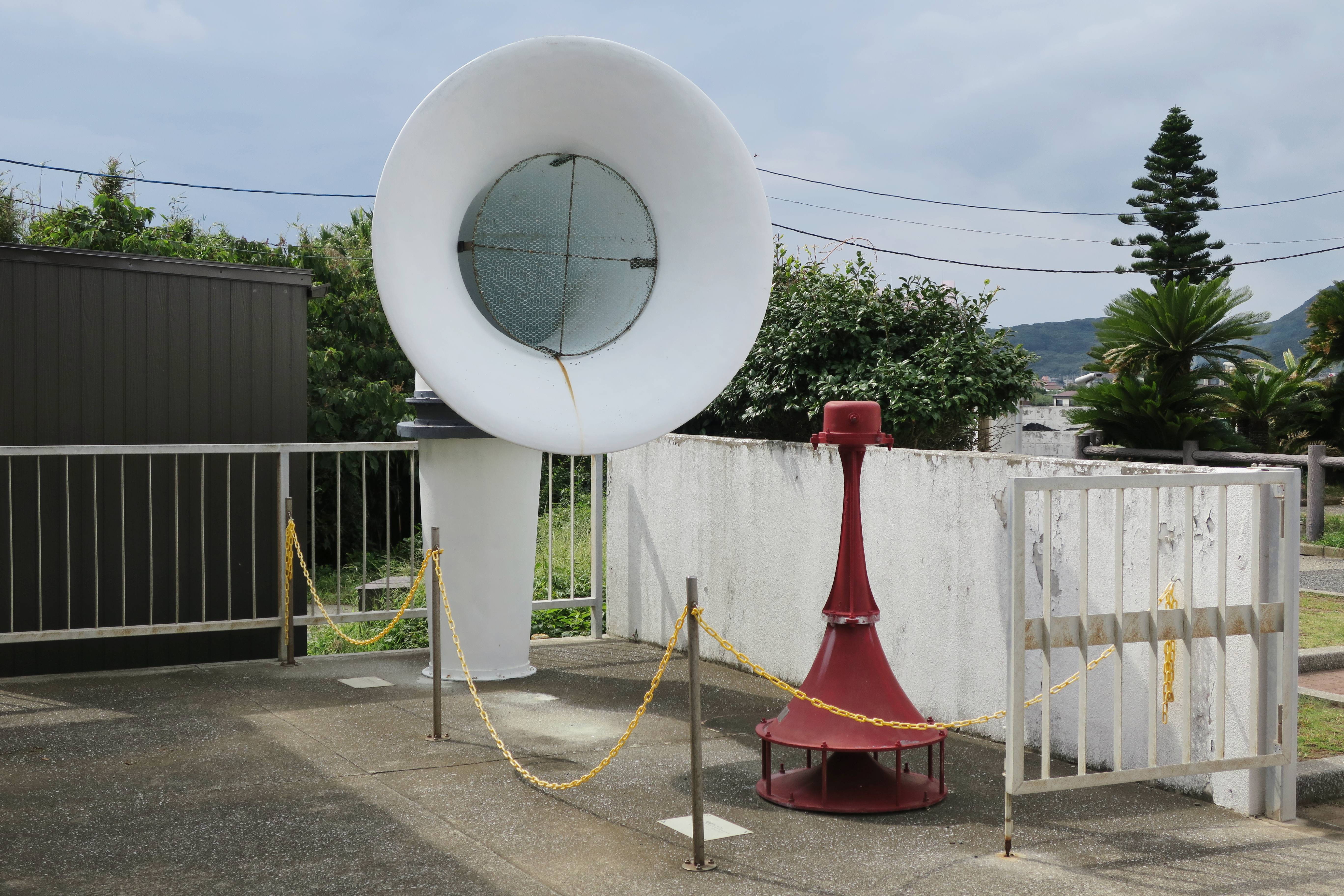 Nojimasaki Light House Museum (Minamiboso, Chiba).